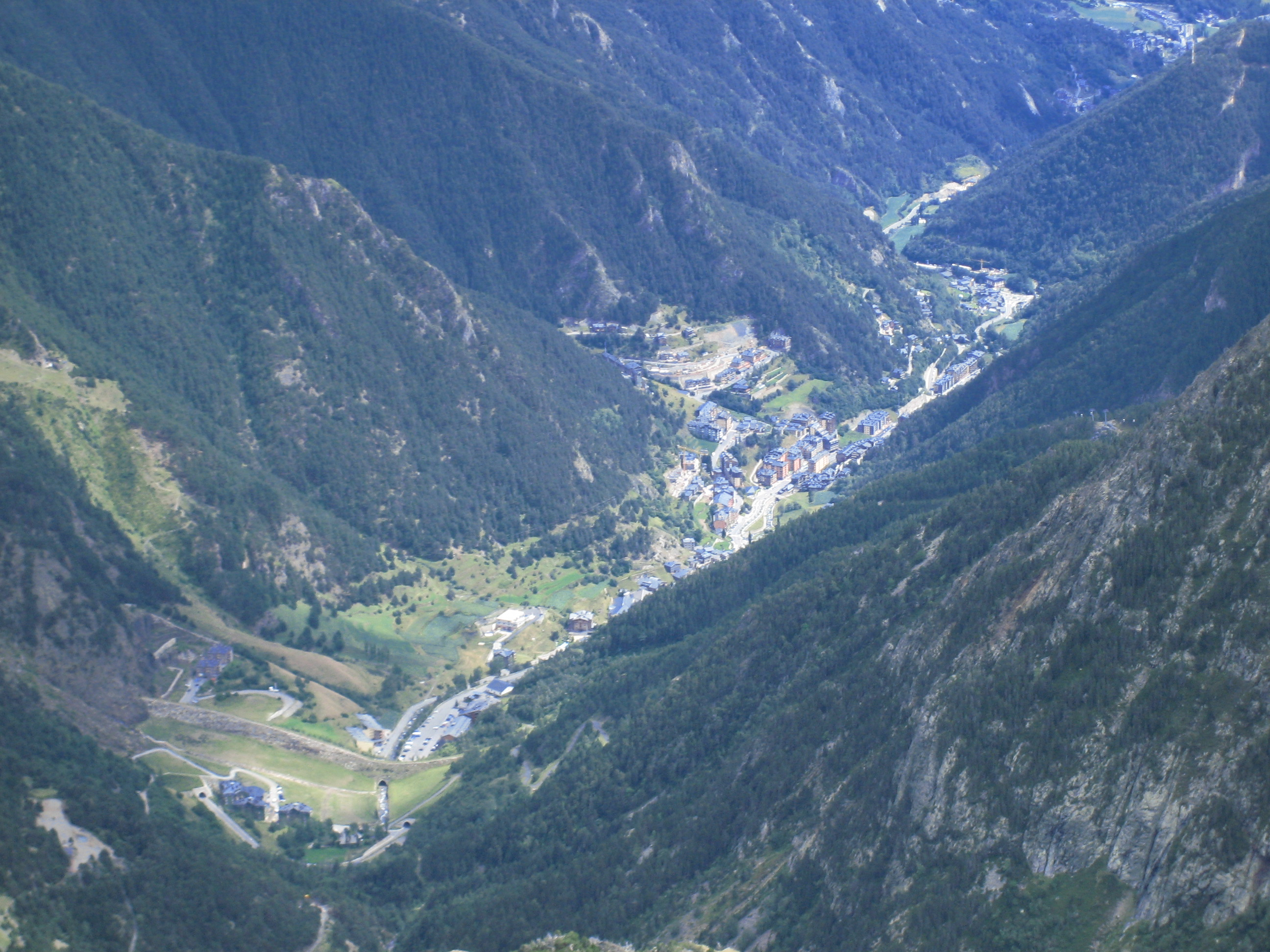 View from the Coma Pedrosa summit, Arinsal, La Massana, Andorra